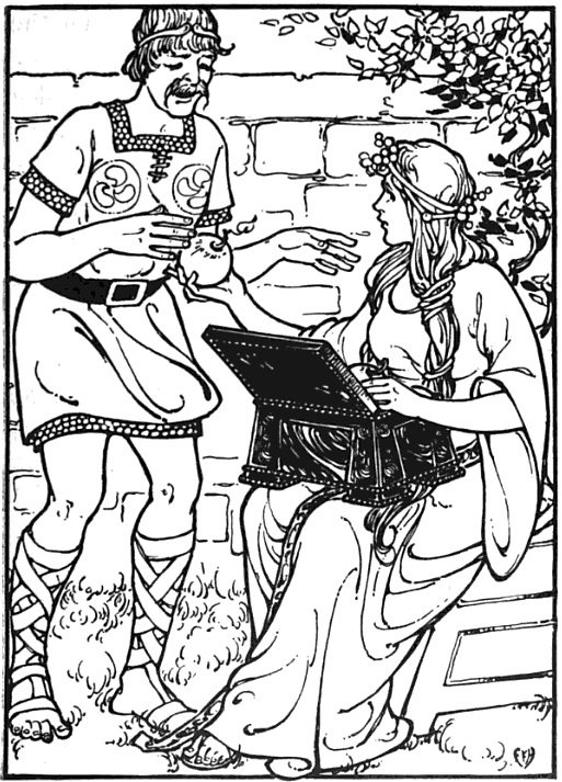 Captioned as "Idun was sitting one morning in her garden". The goddess Iðunn hands Loki an apple from her eski (a small chest).